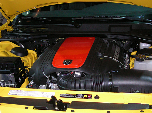 5.7L Hemi Dodge engine.